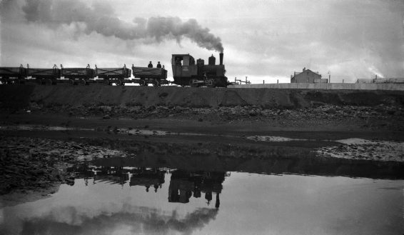 1913-1917, hafnargerð í Reykjavík. Eimreið á leiðinni upp í Öskjuhlíð. Ljósmyndari / Photographer: Magnús Ólafsson Format: Blaðfilma / Sheet Film, 10 x 15 cm. Höfundarréttur / Rights Info: Enginn þekktur höfundarréttur / No known restrictions on publication. Geymsla / Repository: Ljósmyndasafn Reykjavíkur / Reykjavík Museum of Photography, Tryggvagata 15, 6. Hæð / 6th floor Númer myndar / Call Number: MAÓ 2323 Myndavefur Ljósmyndasafnsins / Reykjavík Museum of Photography´s photoweb: ljosmyndasafn.reykjavik.is/fotoweb/Grid.fwx